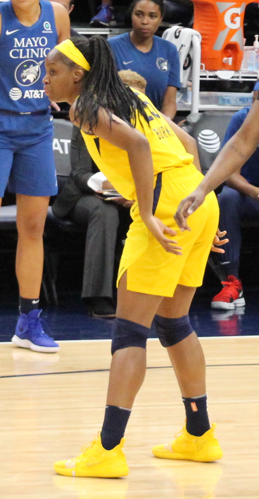 Kennedy Burke of the Indiana Fever